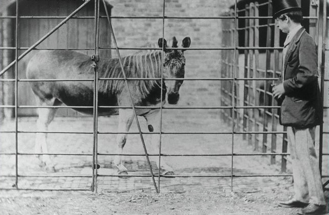 Quagga with keeper in London Zoo.